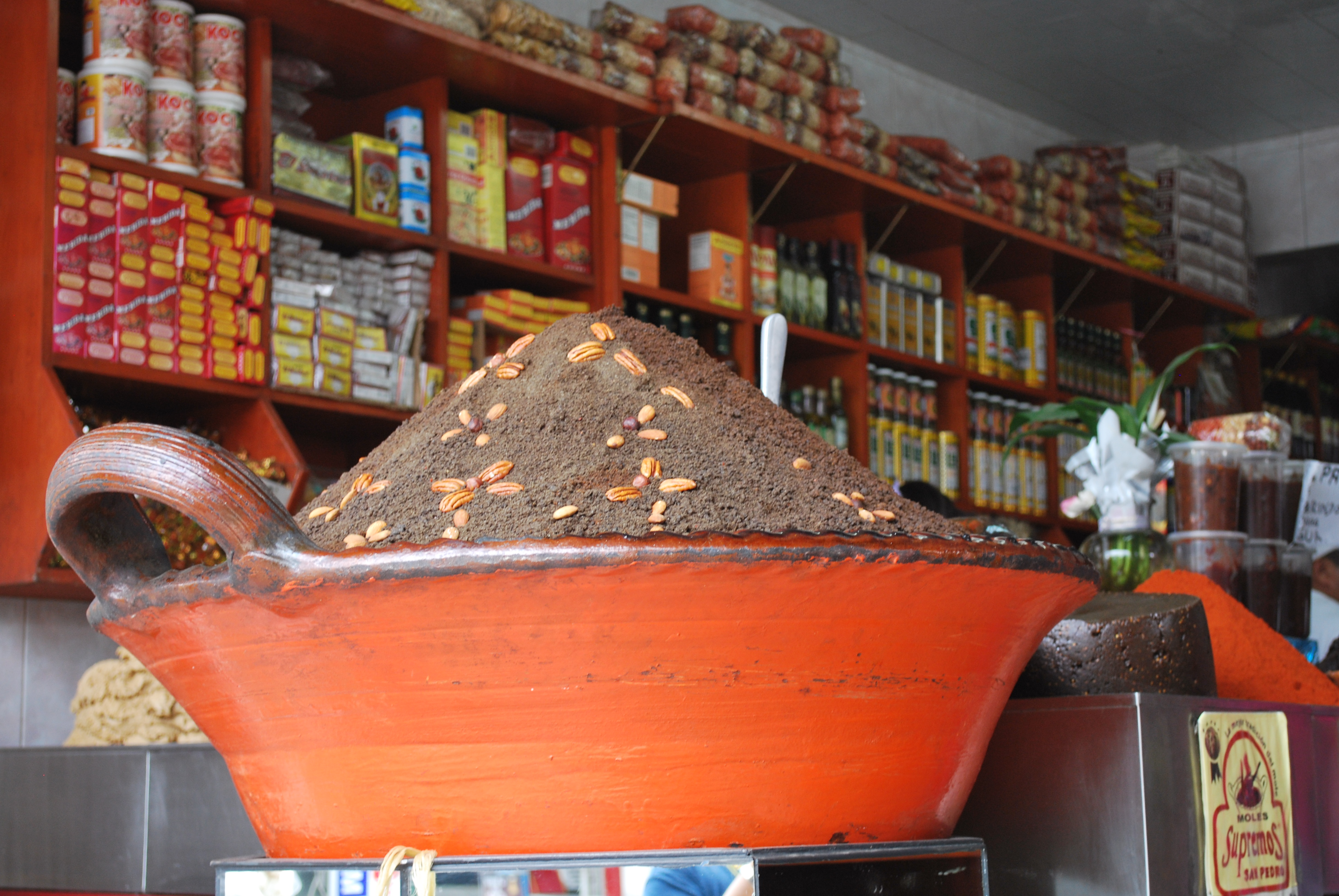 Preprepared mix for mole sauce for sale at San Pedro Atocpan in Milpa Alta borough, Mexico City